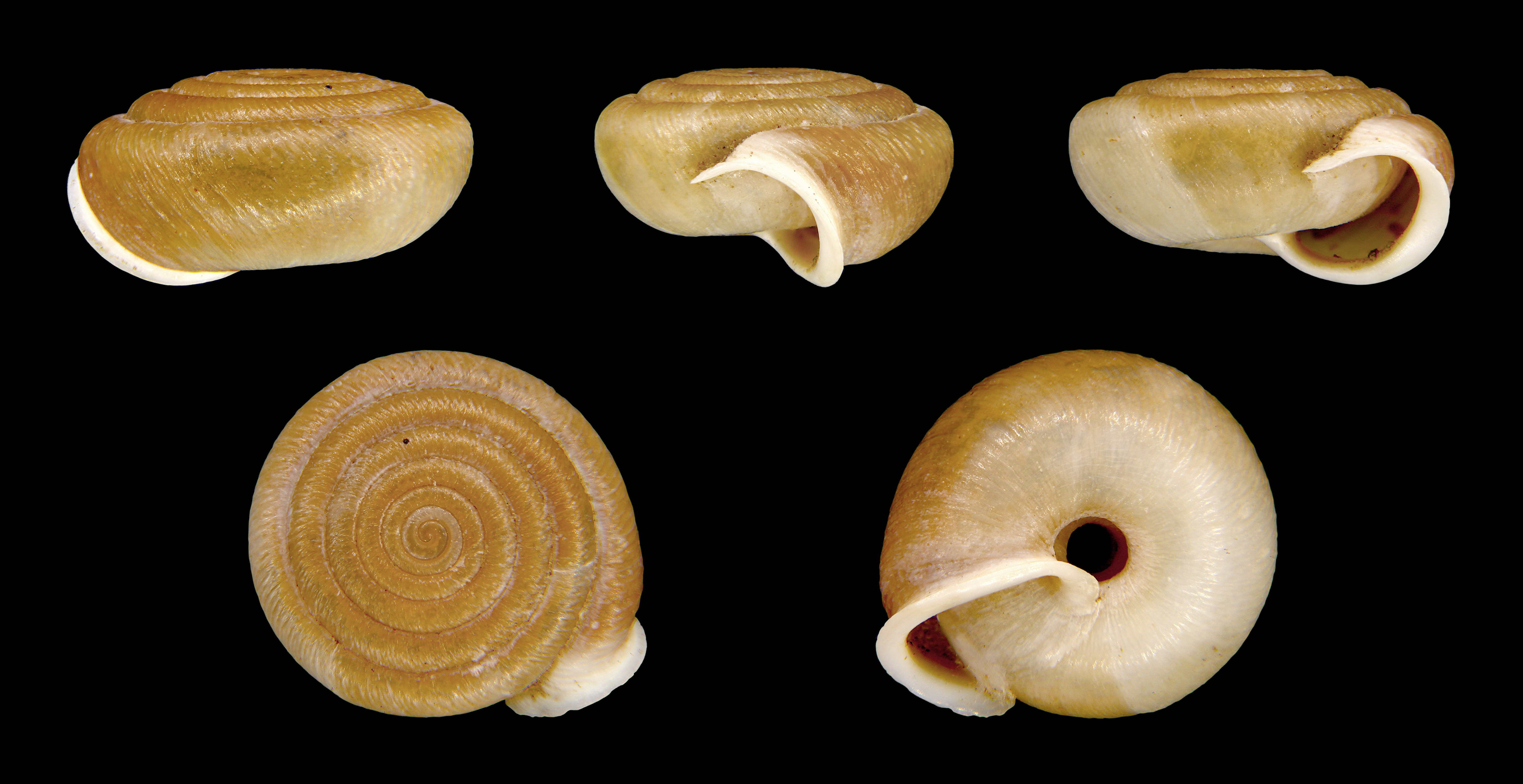 Diameter 1 cm; Originating from Ada-Bojana, Montenegro; Shell of own collection, therefore not geocoded.